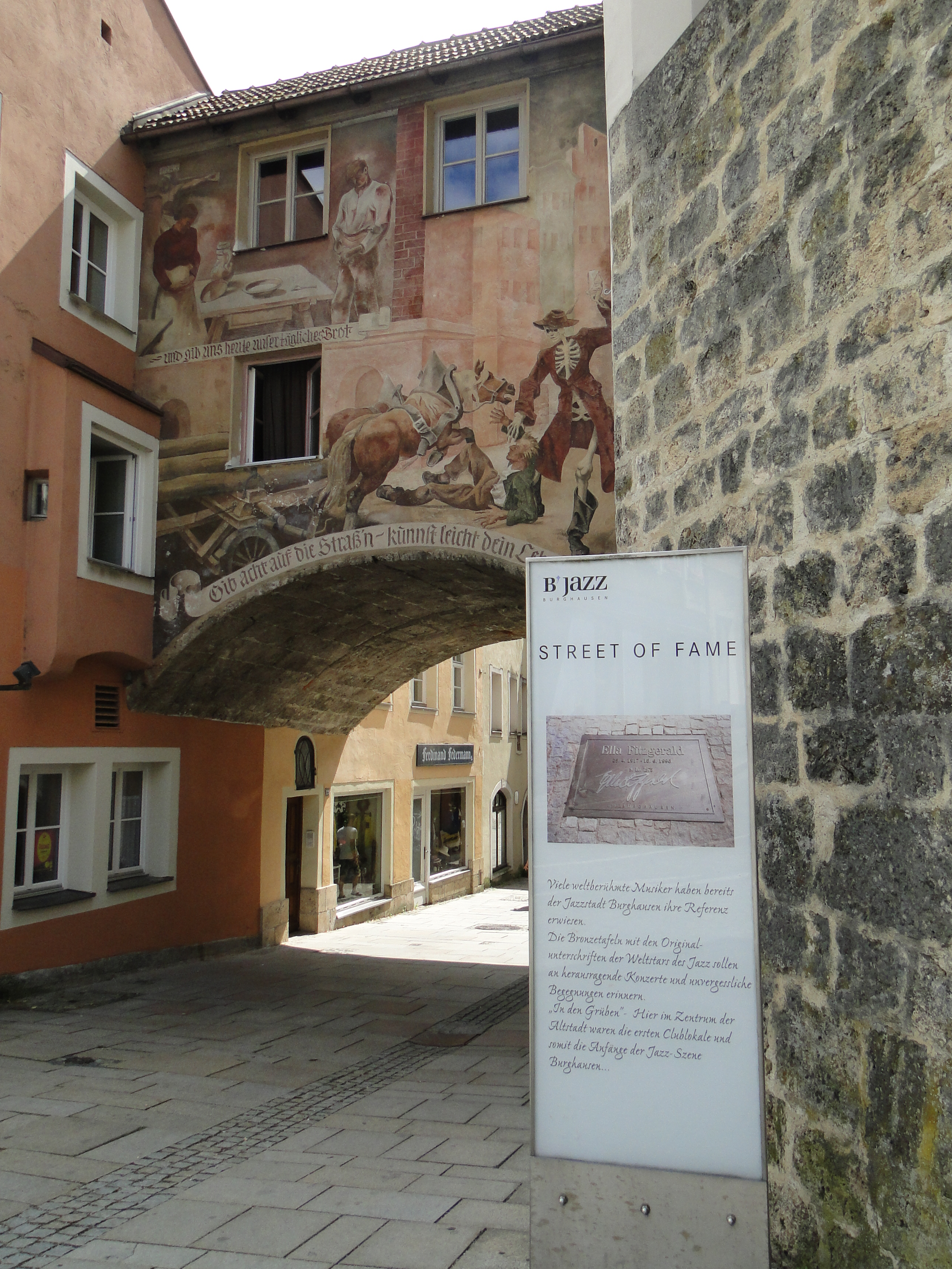 Entry to the "Walk of fame" street in Burghausen (Germany)